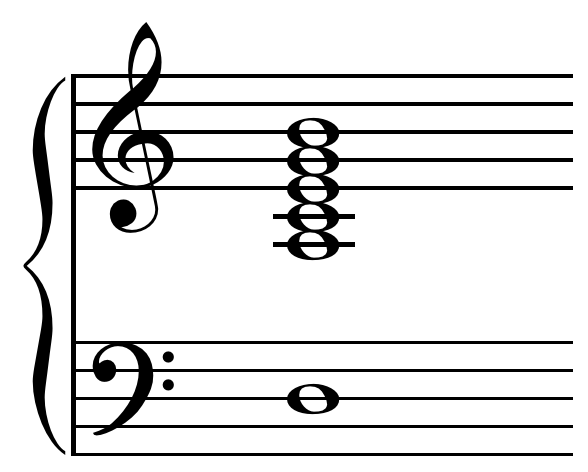 Minor eleventh chord in Herbie Hancock's "Maiden Voyage". Created by Hyacinth (talk) 15:42, 1 July 2011 (UTC) using Sibelius 5.